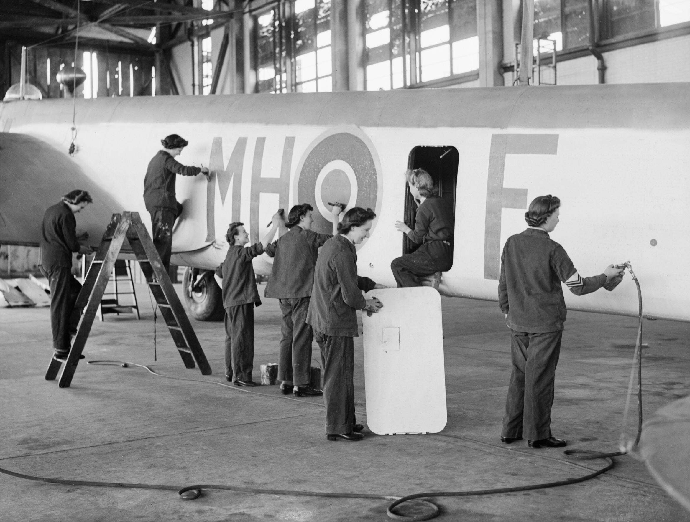 Royal Air Force Coastal Command, 1939-1945. WAAF fabric workers and workshop hands at a Coastal Command Maintenance Unit at ,Gosport, Hampshire, clean and paint an Armstrong Whitworth Whitley Mark V of No. 51 Squadron RAF.